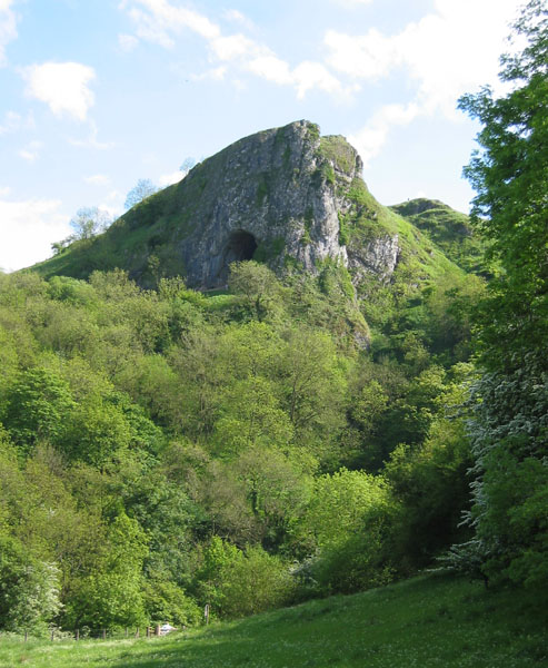 Thor's cave, from the Manifold Way. Photograph by T Chalcraft